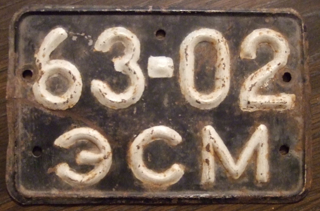 USSR ESTONIAN SSR motorcycle plate 1960 series